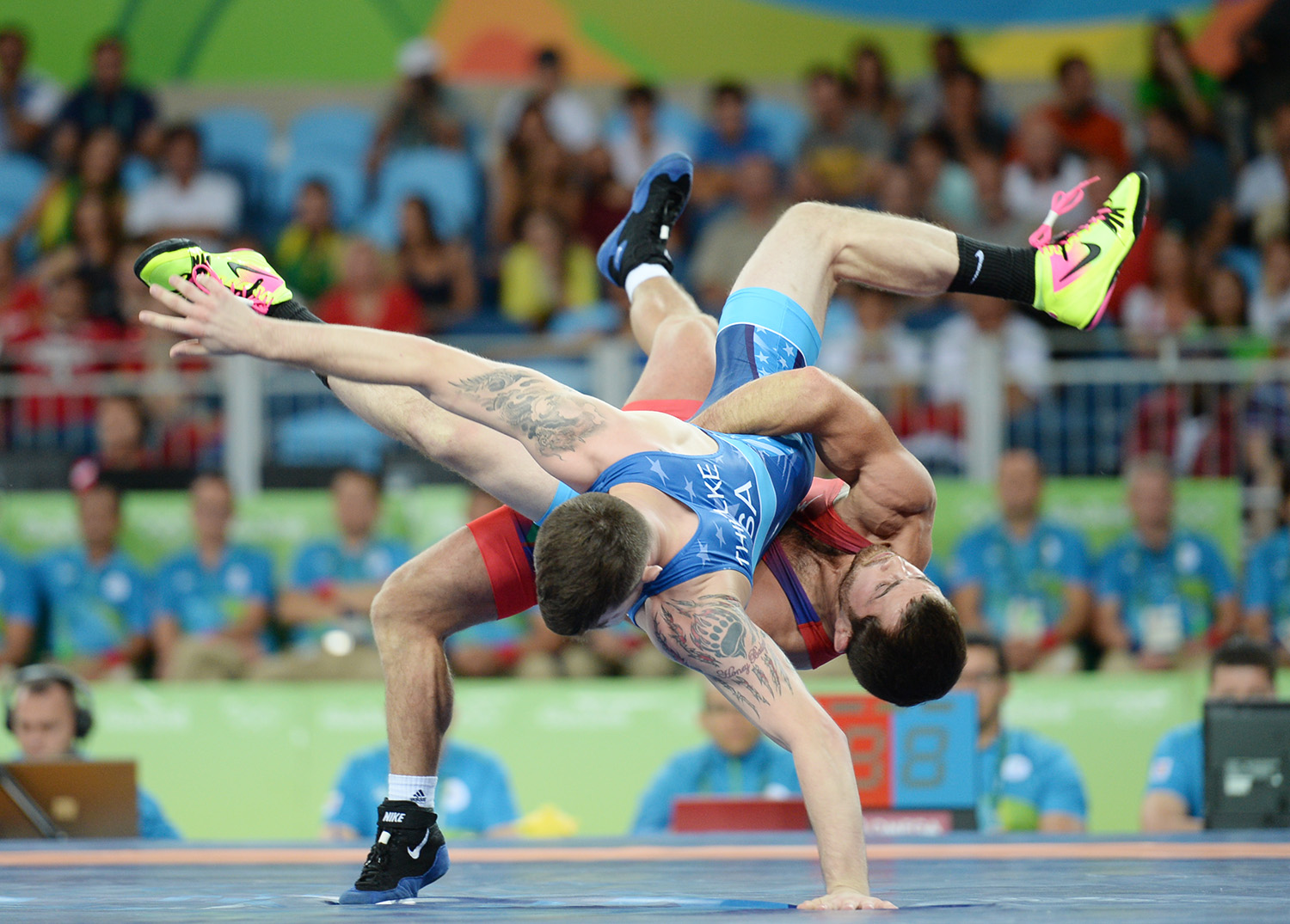 Wrestling at the 2016 Summer Olympics, Bayramov vs Thielke